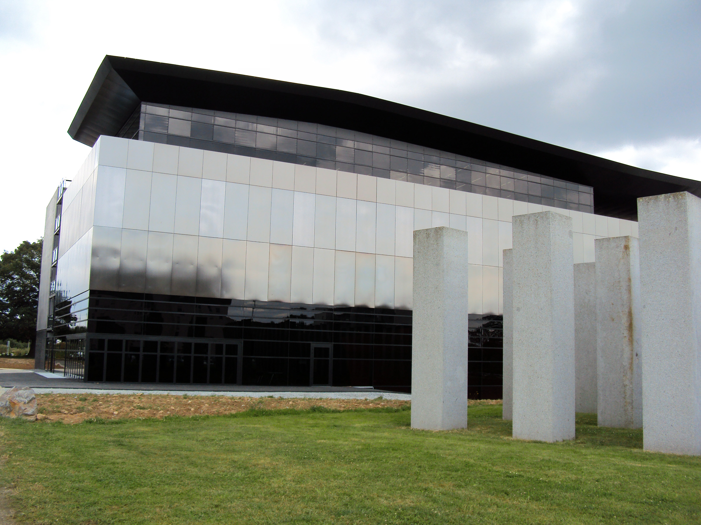 Official opening of FRAC Bretagne - The Regional Fund for Contemporary Art Britain - Rennes - July 8, 2012 - The new building